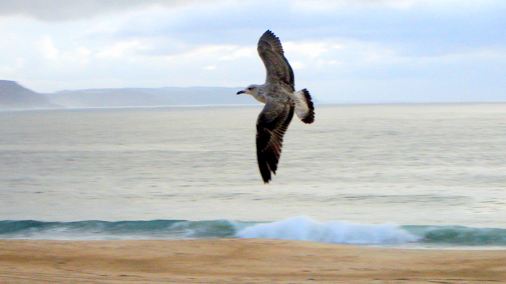 Immature Yellow-legged Gull on the Nazareth beach in Portugal